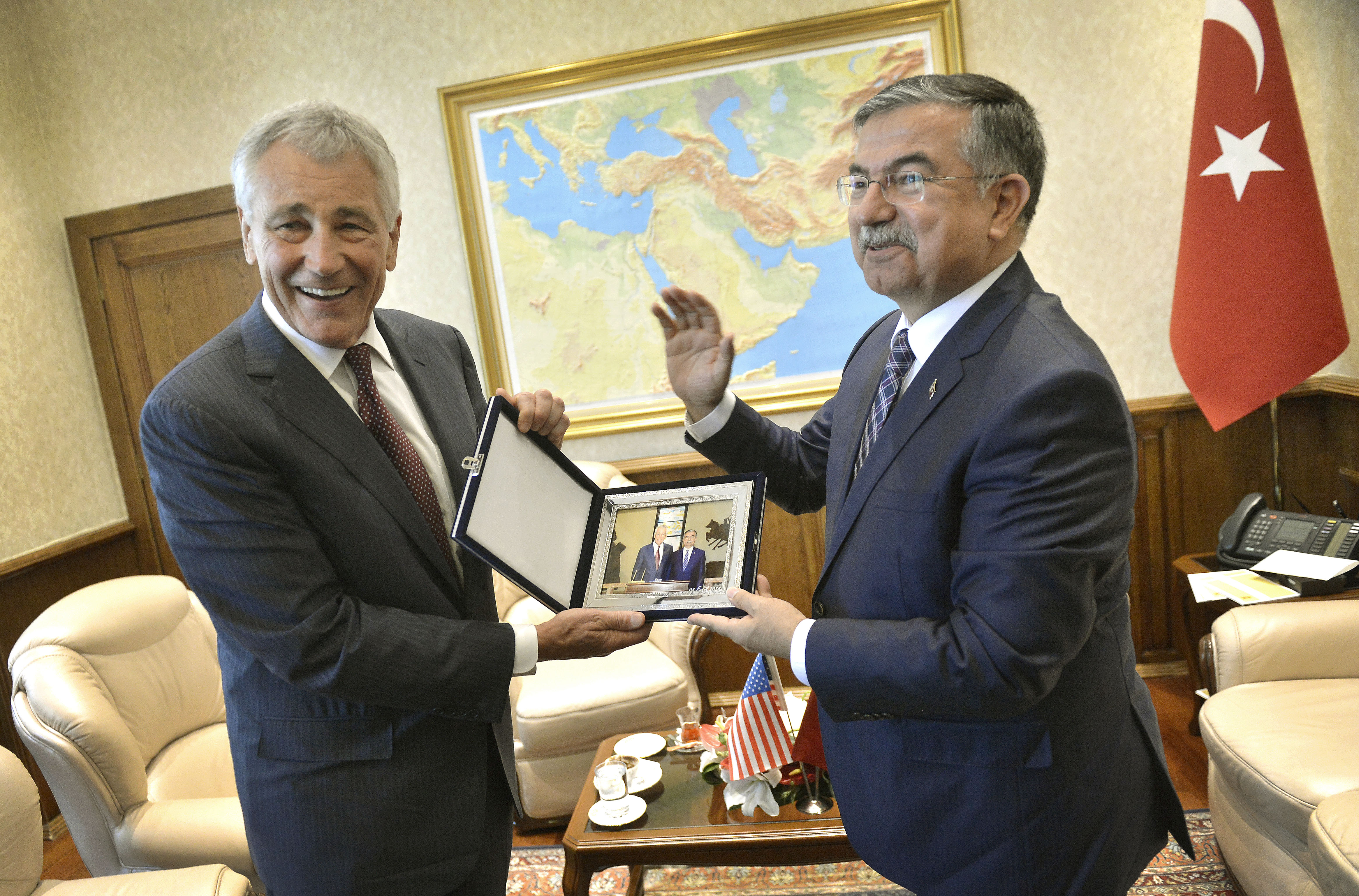 Turkish Minister of National Defense Ismet Yilmaz, right, presents a photo to U.S. Secretary of Defense Chuck Hagel Sept. 8, 2014, that was taken of the two of them earlier in the day at the Ministry of National Defense in Ankara, Turkey, where the two leaders are holding a meeting.